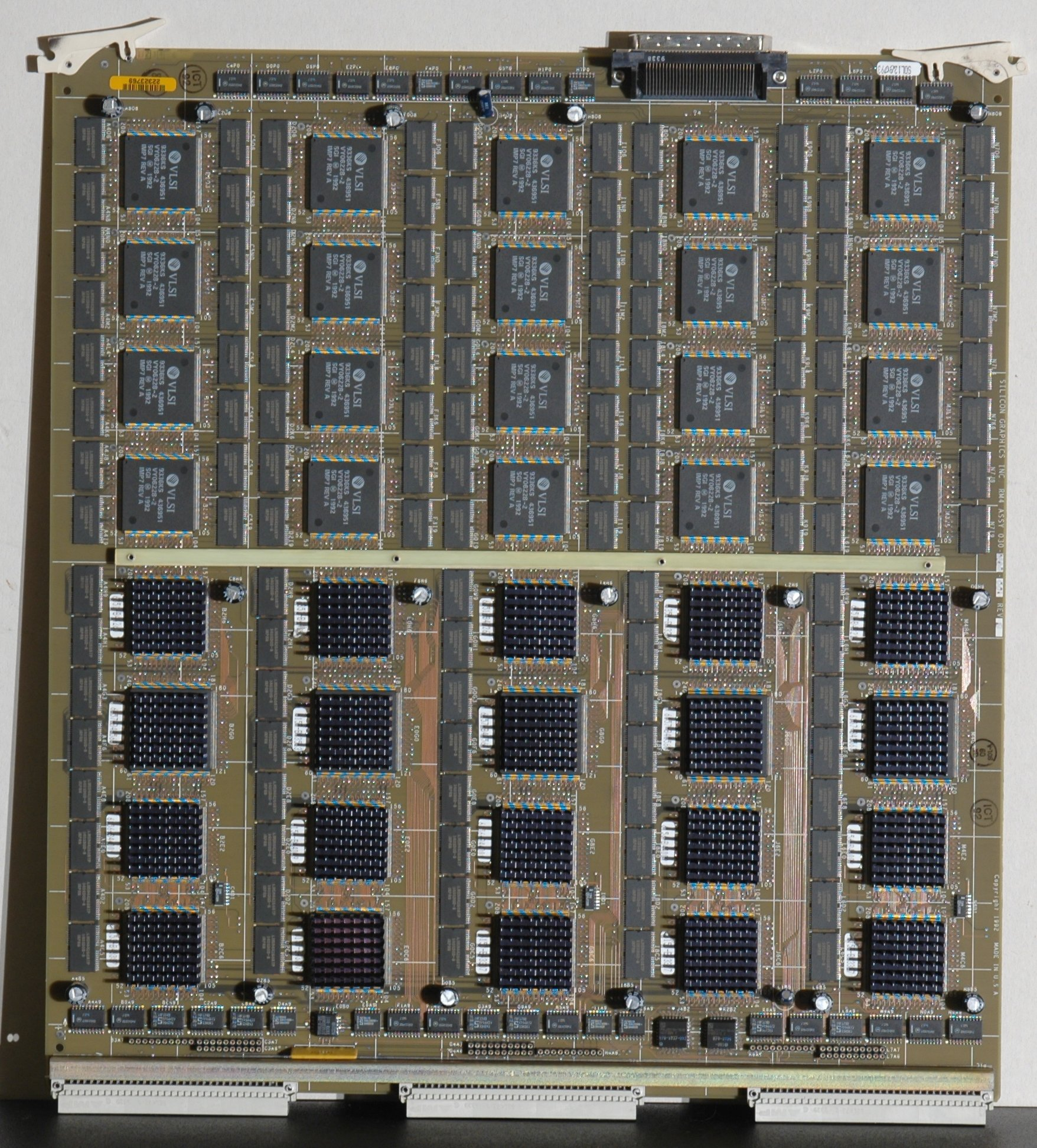 SGI RM4 raster manager board from a Reality Engine 2 graphics system. Includes rasterization, pixel fill, texture and zbuffer hardware and related video ram. From the collection of the RCS/RI.